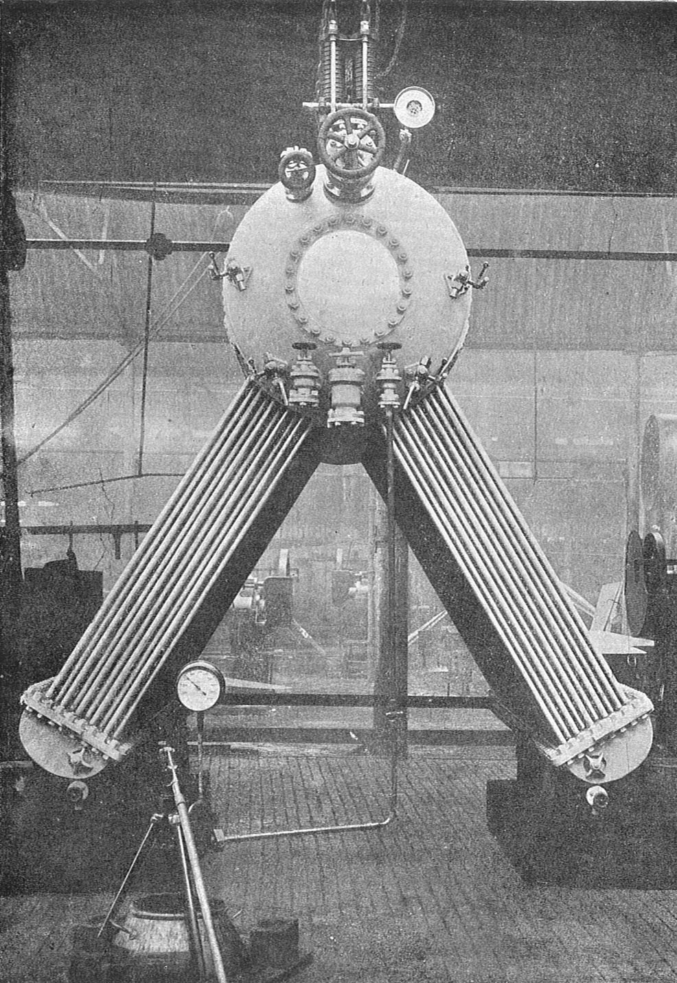 Straight watertube marine boiler (Rankin Kennedy, Modern Engines, Vol VI).jpgStraight Tube Marine Boiler